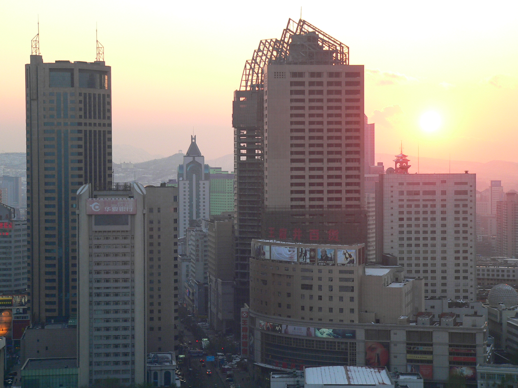 The city of Urumqi at dusk.